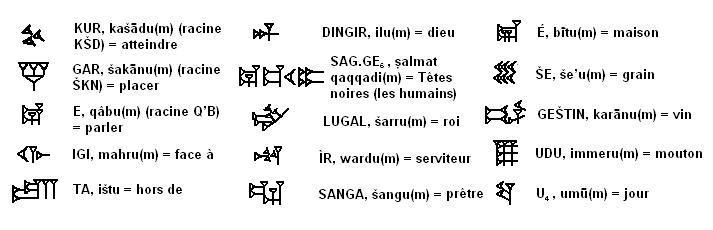 Cuneiform signs with Sumerian and Akkadian logogram values and French translations.